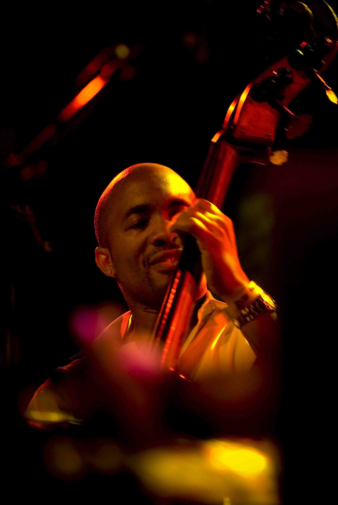 Rueben Rogers, performing with Joshua Redman- Northsea Jazz Festival 2008